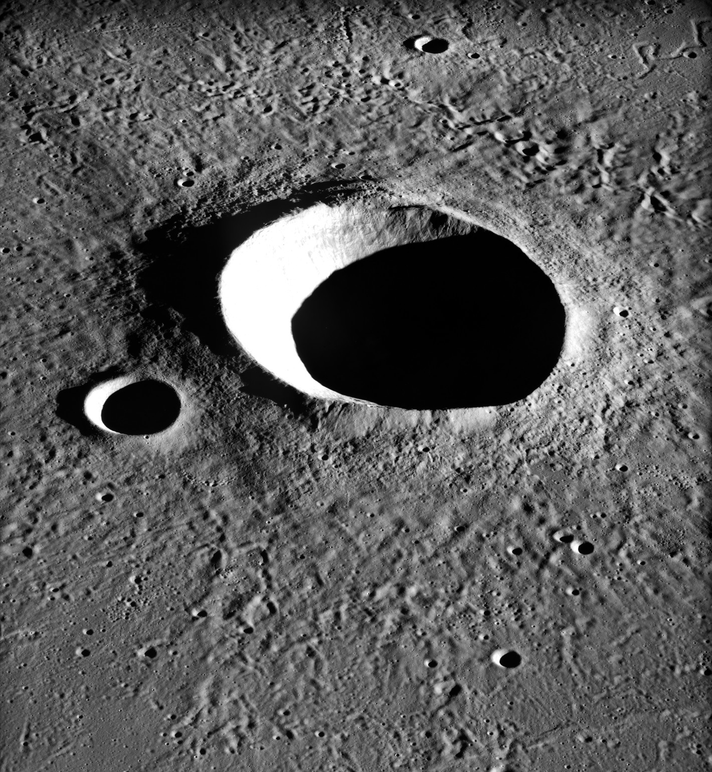 Oblique view of Diophantus crater, facing north, on the moon. Taken by Apollo 17 panoramic camera.